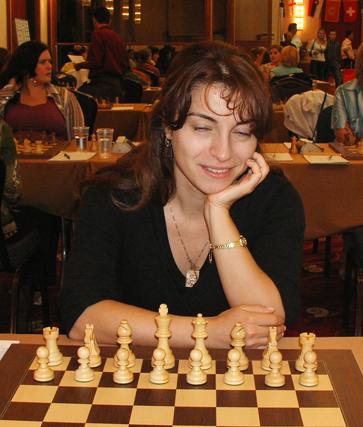 WGM Nino Khurtsidze (Georgia), Heraklion 2007